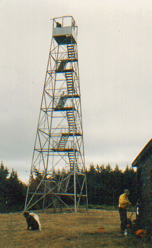 Photographed by Daniel Case 1998-11-15. Print scanned 2006-07-02